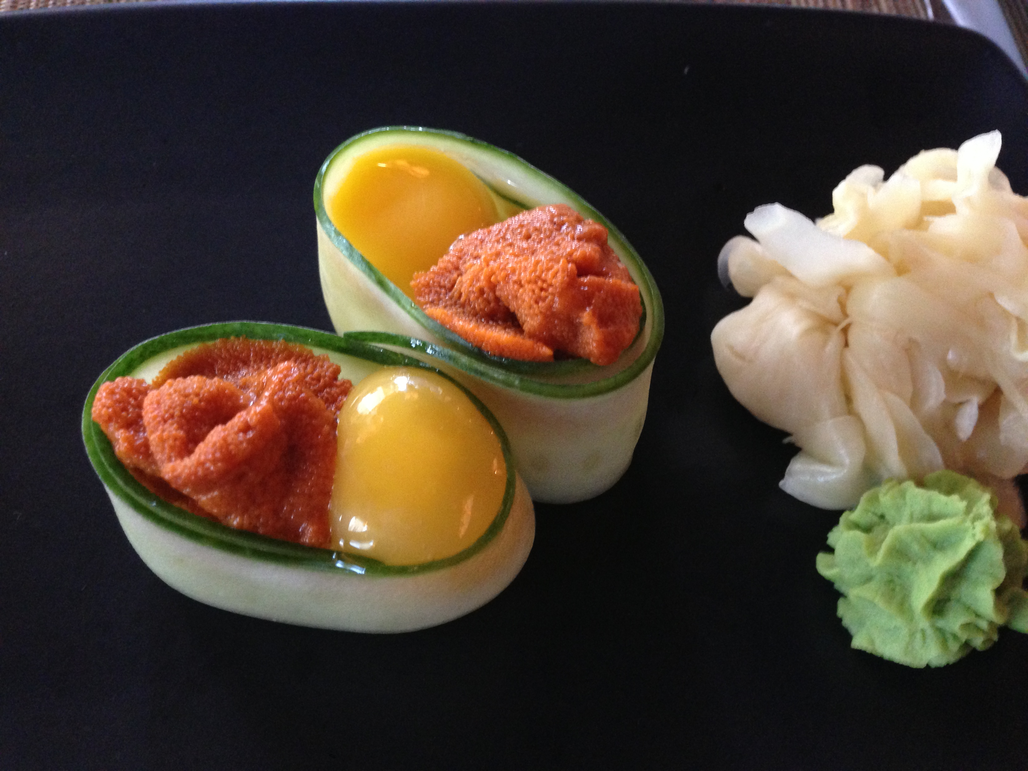 Sushi made of quail eggs and sea urchin flesh in one of Moscow restaurants